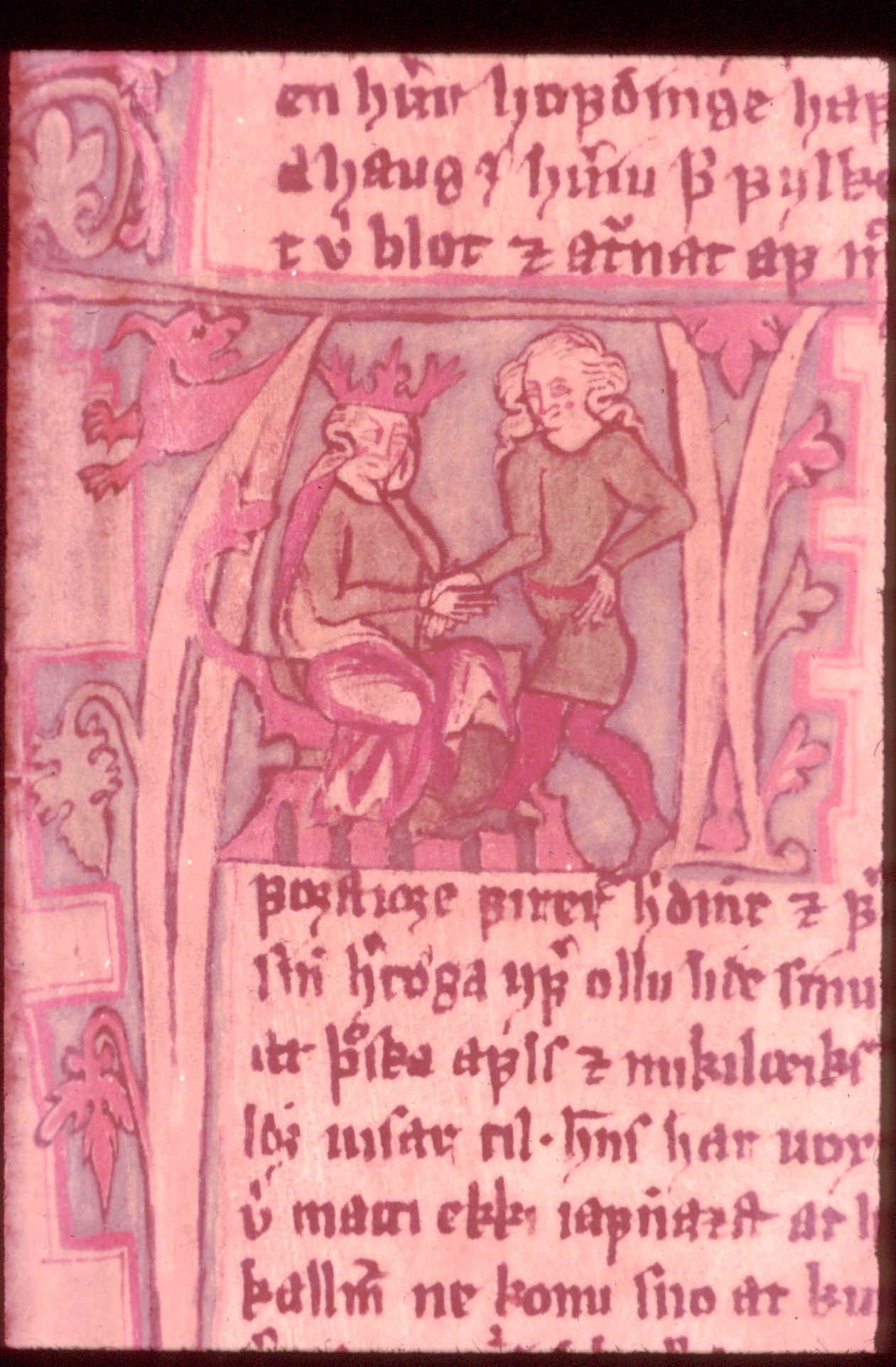 King Harold Fairhair takes over the kingdom of his father, Halfdan the black. Miniature from Flateyjarbok.